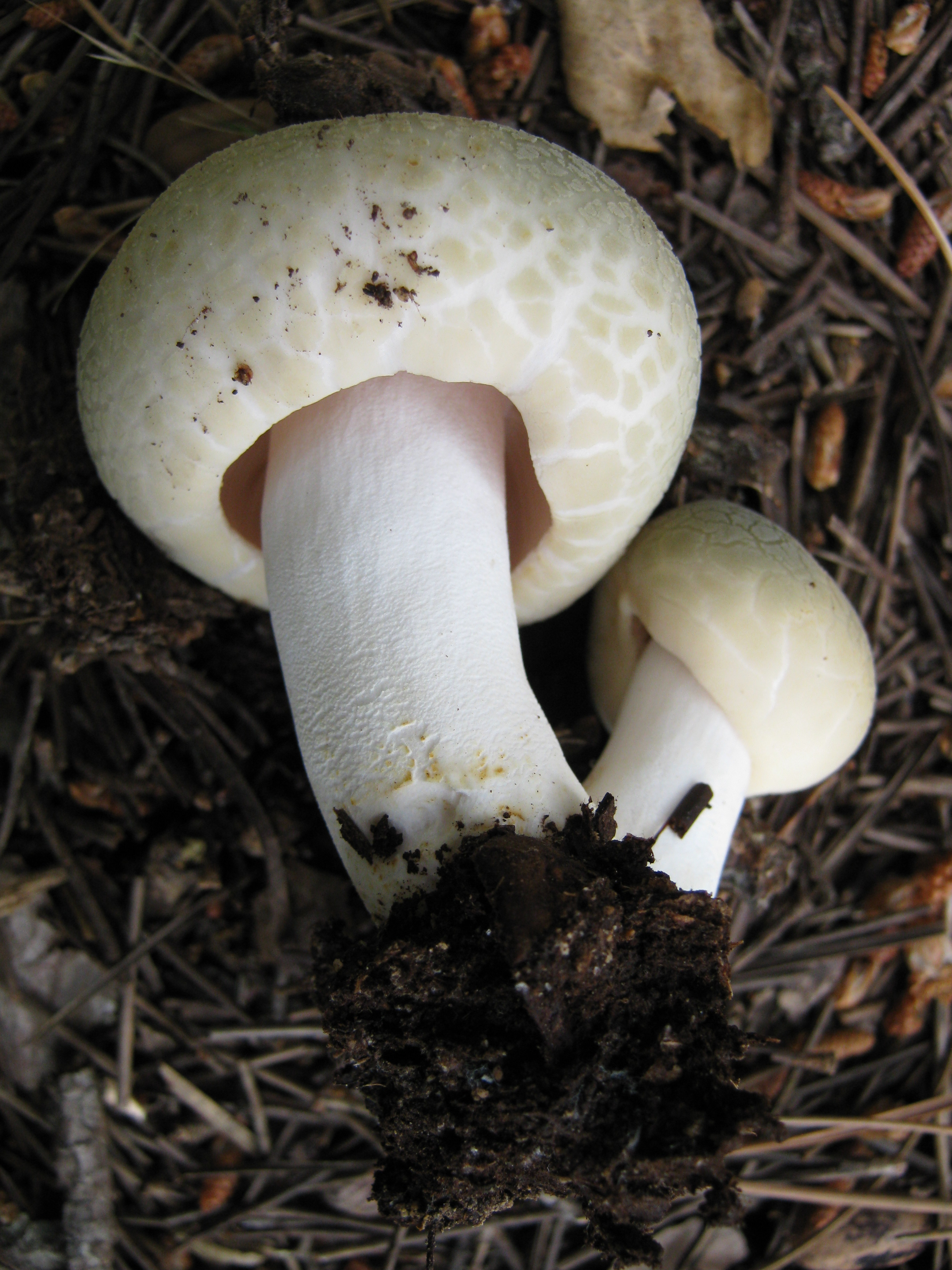 A young fruit body of the fungus Russula virescens (Schaeff.) Fr. Photographed in Sintra, Portugal.